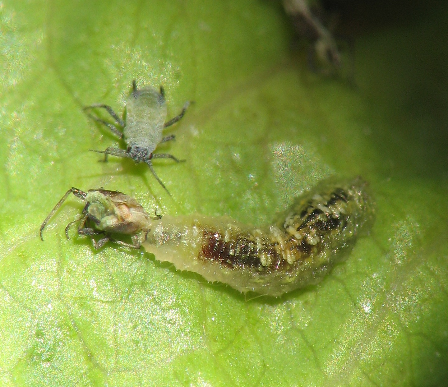 Syrphid fly maggot (Syrphus sp.) feeding on aphids. Size: 5-6 mm. Churchville Nature Center, Bucks County, Pennsylvania, USA (